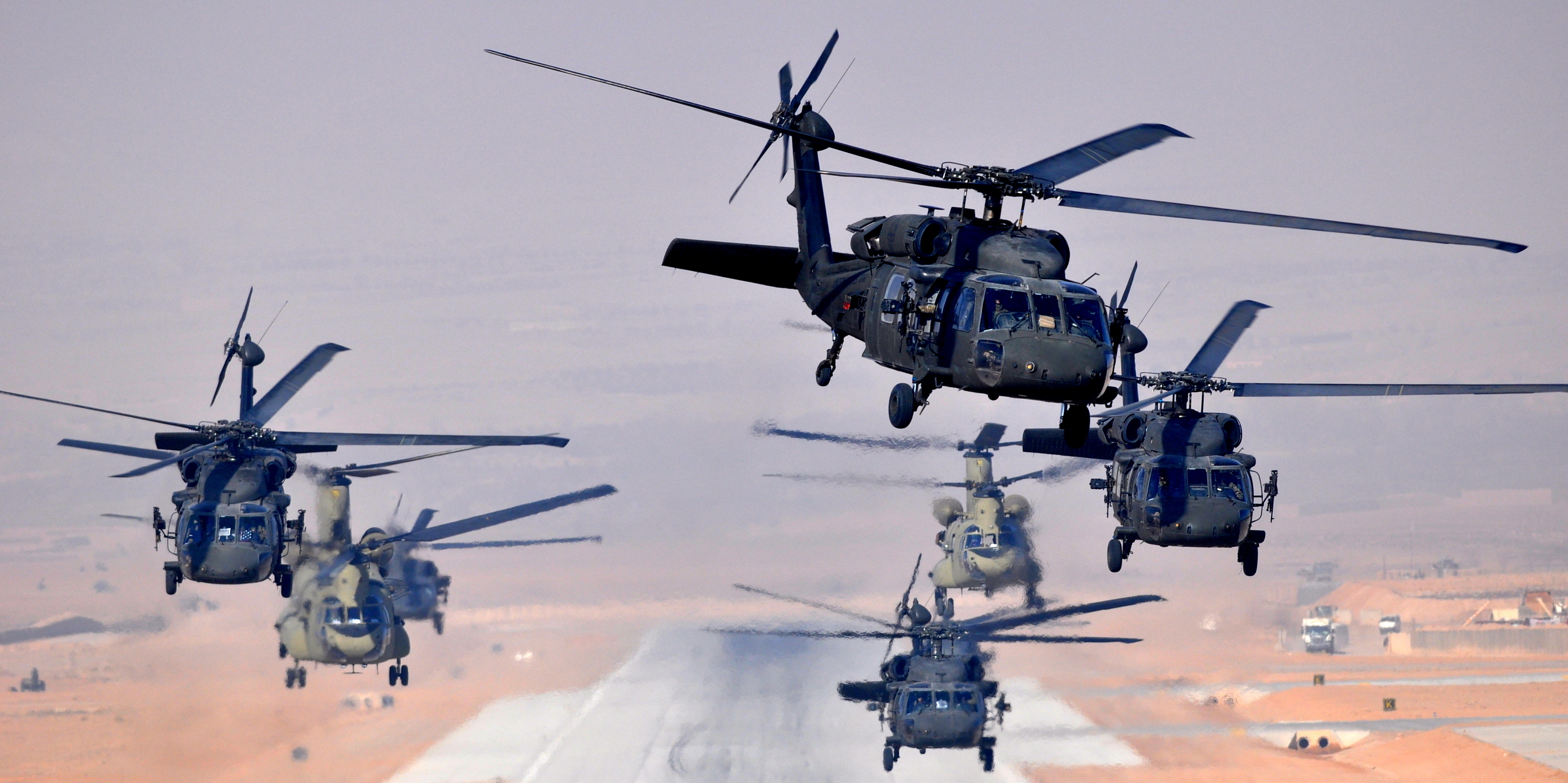 Six UH-60LBlack Hawks and two CH-47F Chinooks, assignedto Task Force Brawler, 4th Battalion, 3rd Aviation Regiment, TaskForce Falcon, simultaneouslylaunch a daytime mission Jan. 18 from Multinational Base Tarin Kowt. (Photo ID: 817527)